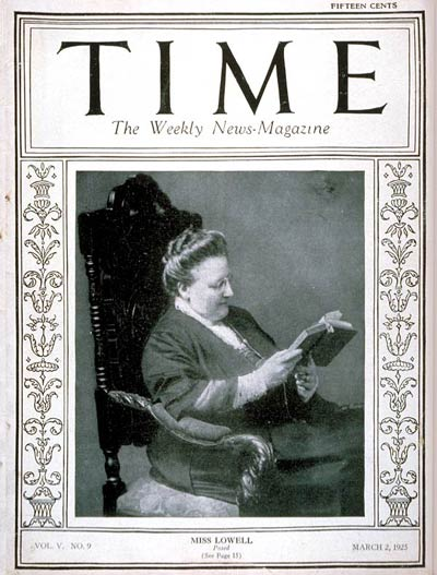 TIME Magazine cover from March 2, 1925 featuring Amy Lowell